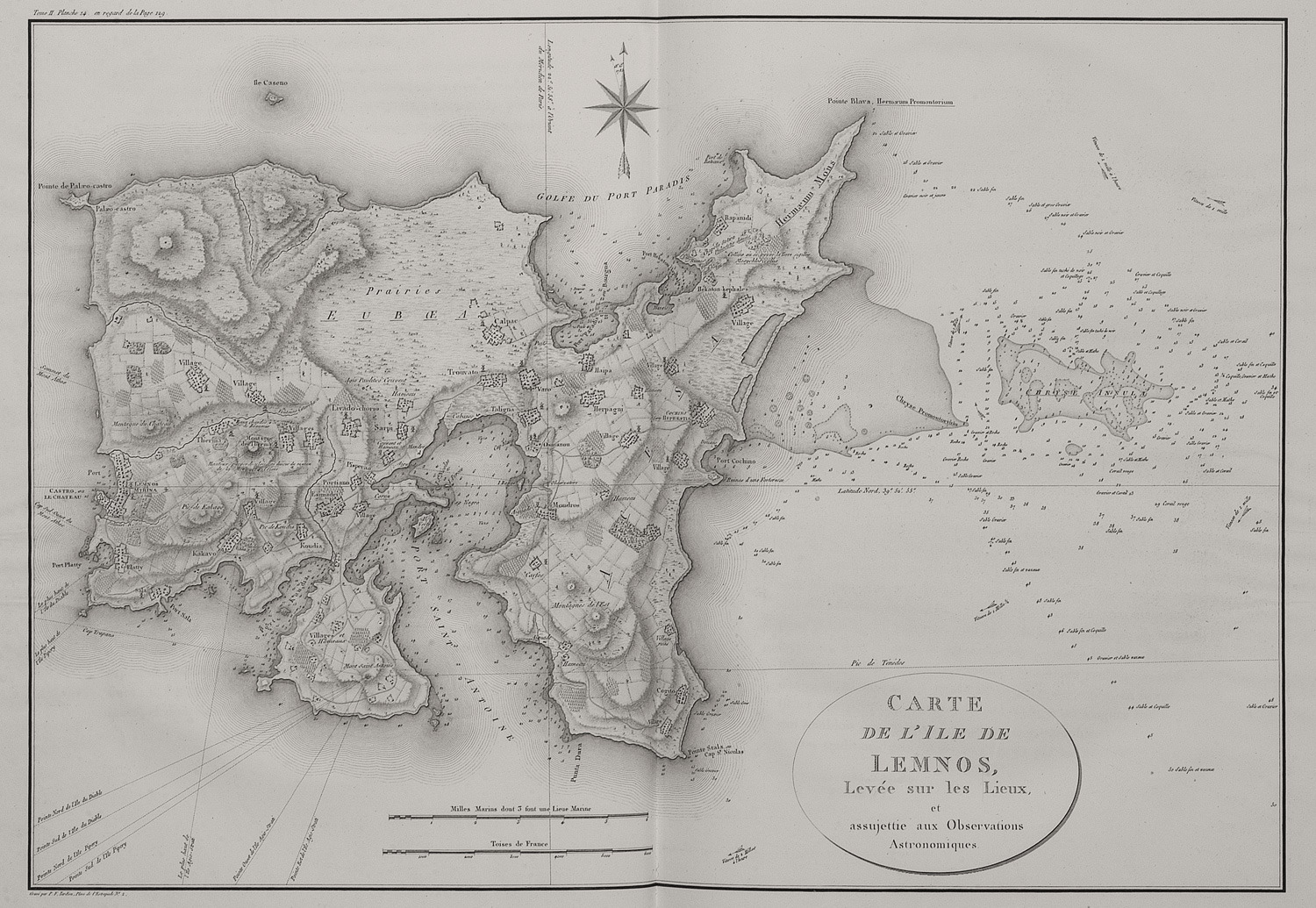 Marie-Gabriel-Florent-Auguste Comte de Choiseul-Gouffier. Voyage pittoresque de la Grèce. Paris, J.-J. Blaise M.DCCC.IX, (1782 1st volume, 1809 2nd volume, 1822 3rd volume, 1842 2nd edition)